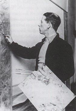 Photograph of the Danish painter at work at Struer Gymnasium. In the picture he is working on the frieze which is framing the three large paintings with motifs from Struer and Vorsøe